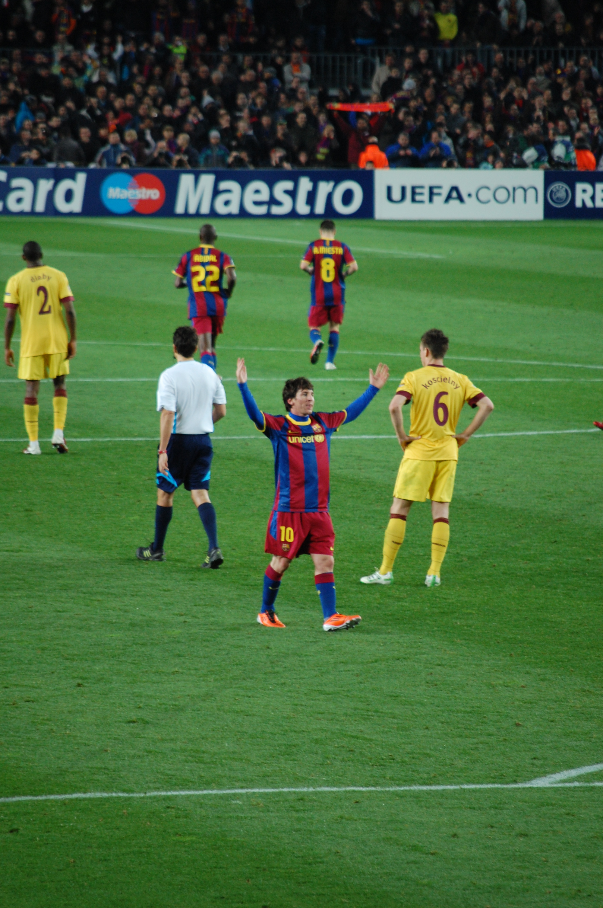 FC BARCELONA - ARSENAL 8 MAR 2011 Camp Nou - Barcelona 8 March 2011